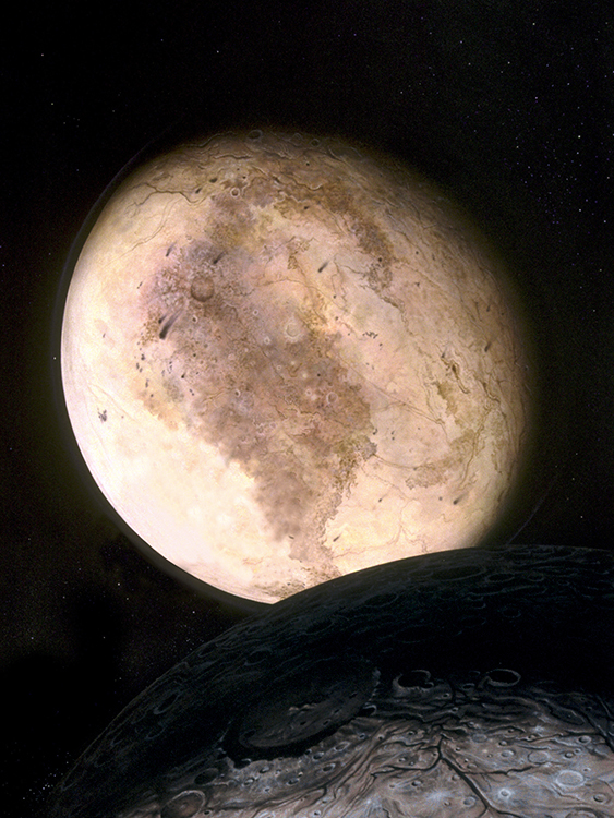 An artist impression of Pluto and its moon Charon.